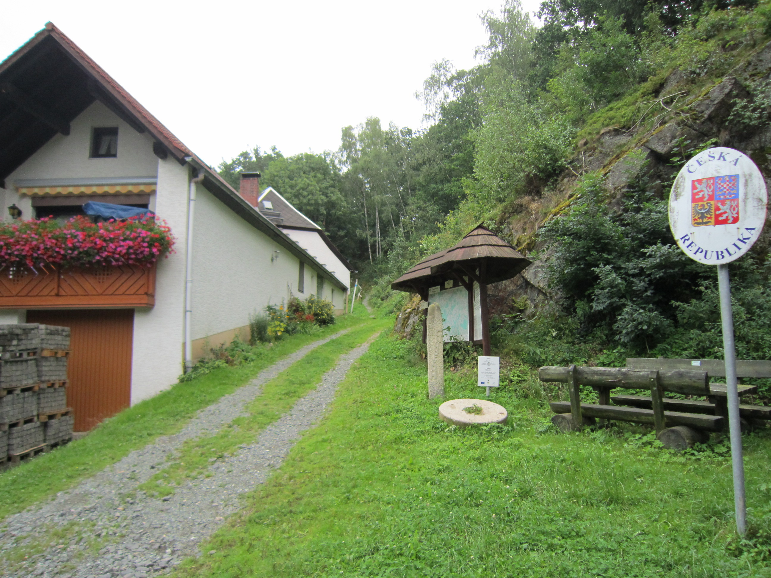 The German-Czech border between Hohenberg an der Eger and Libá